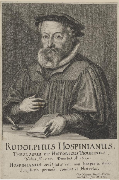 Portrait of Rudolph Hospinian